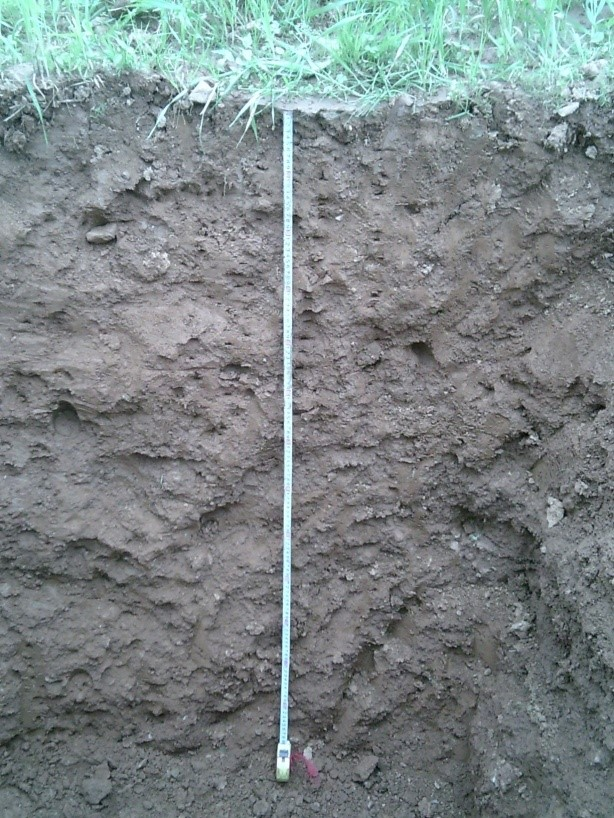 Haplic Cambisol in Atsbi Ethiopia profile